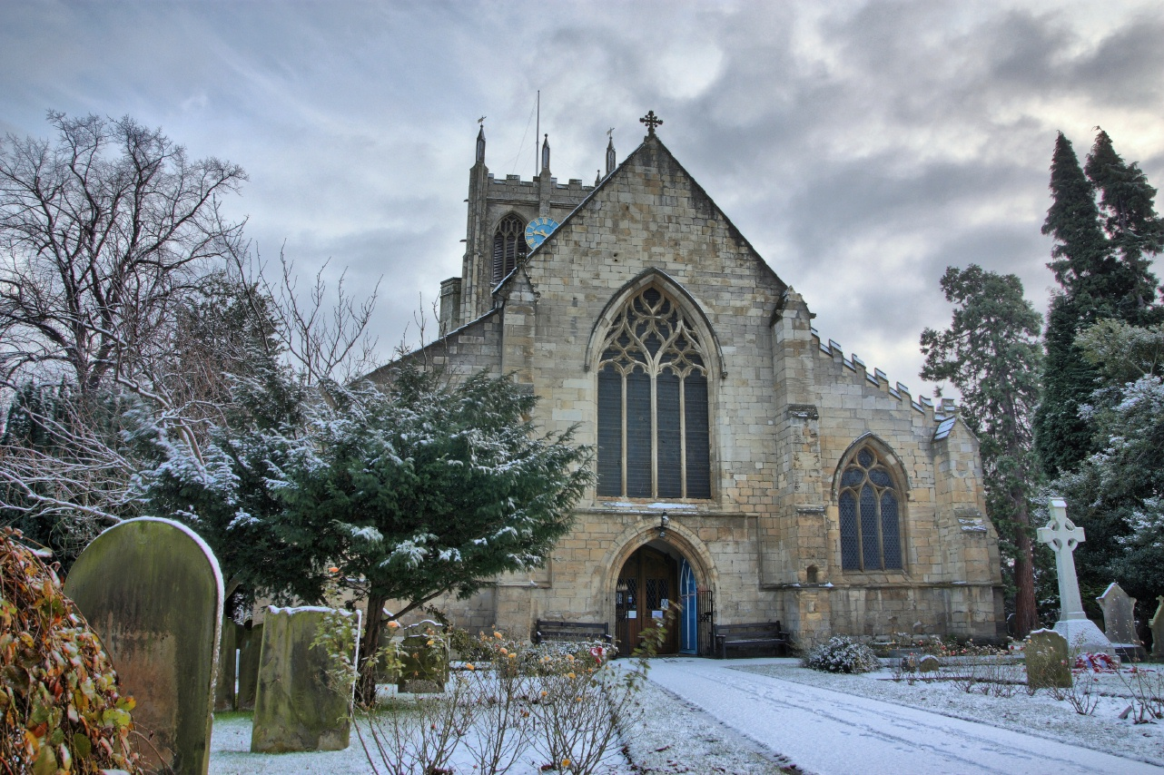 St Mary's parish church, Cottingham, East Riding of Yorkshire, England, seen from the west in snow